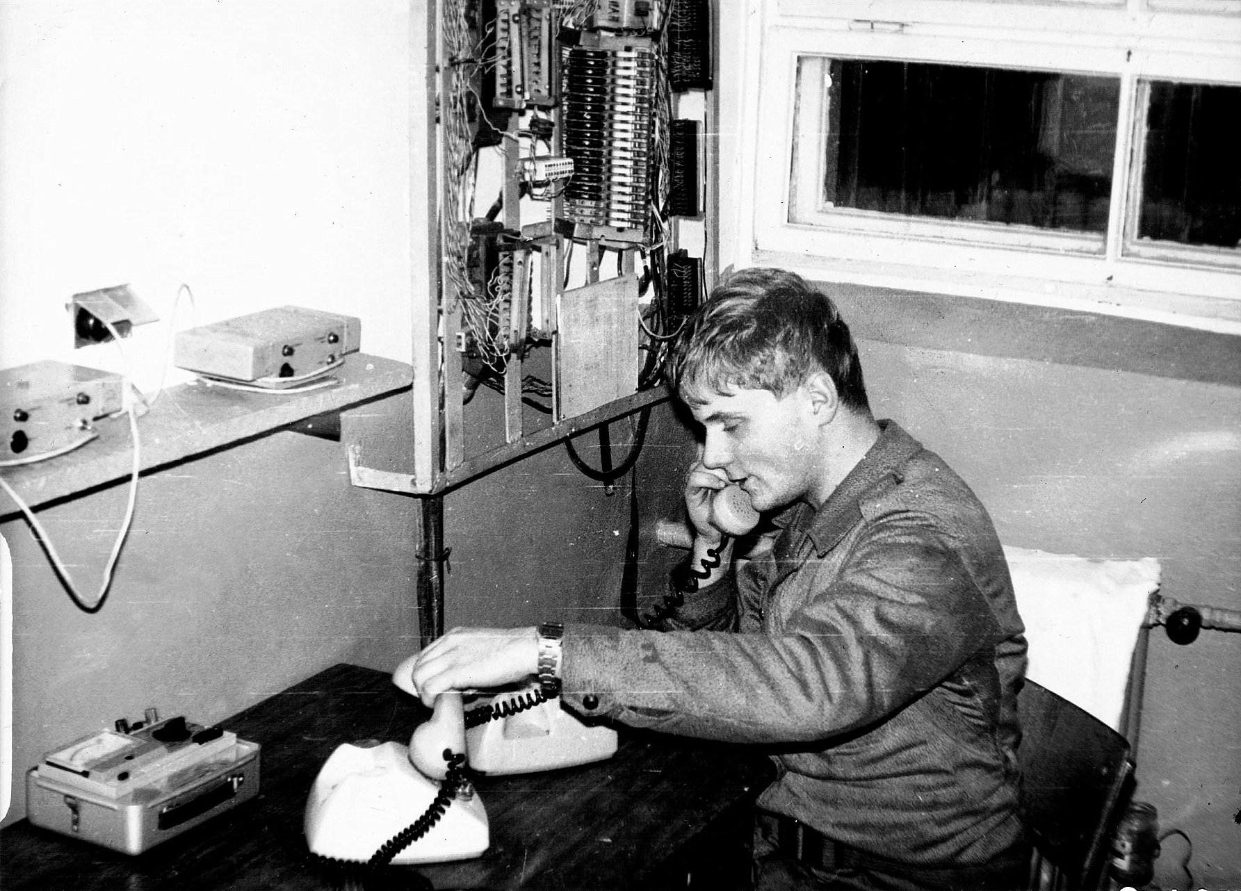 Border Protection Forces in Jastarnia